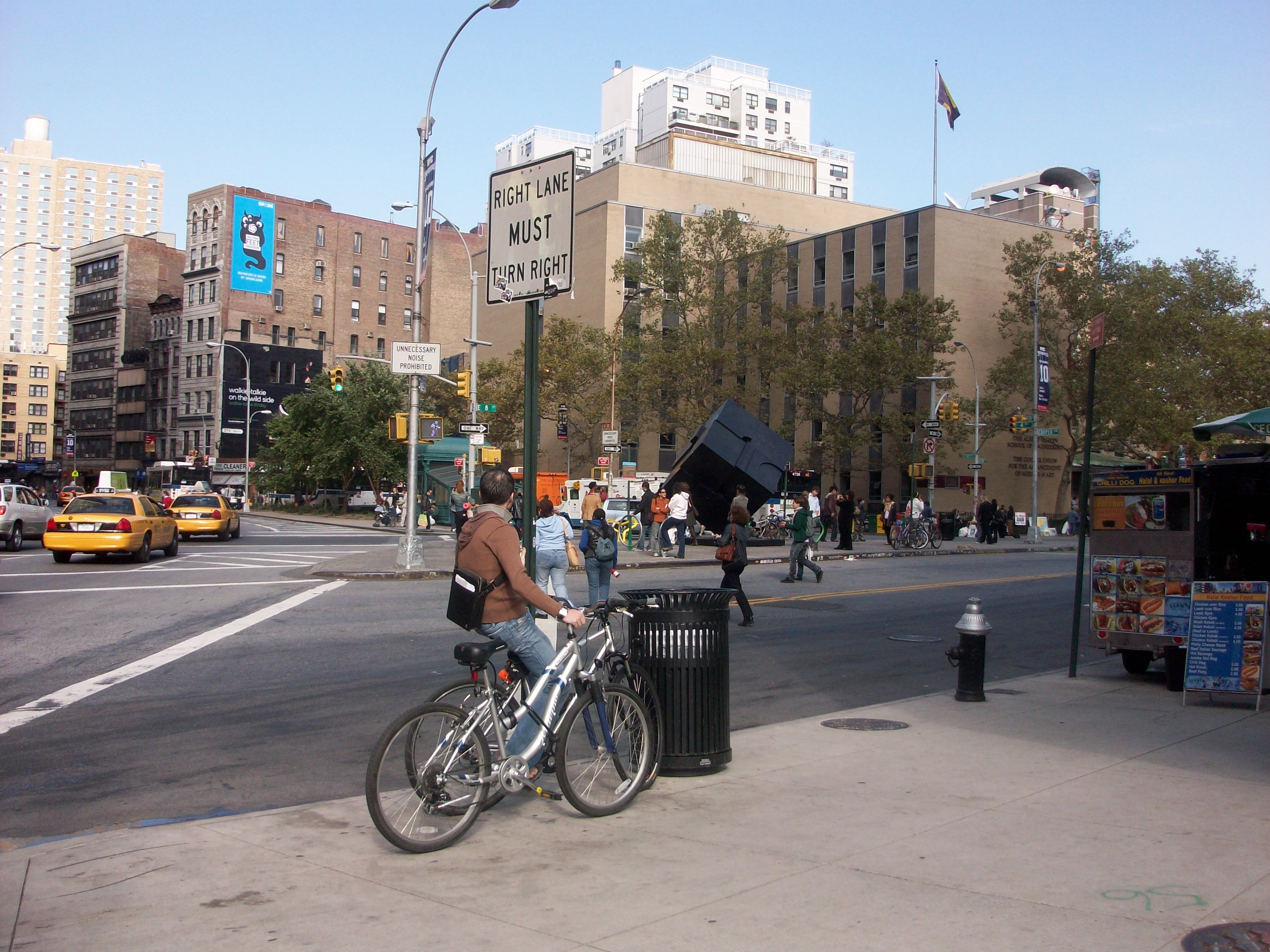 This photo is of Wikis Take Manhattan goal code F28, Astor Place (Manhattan).